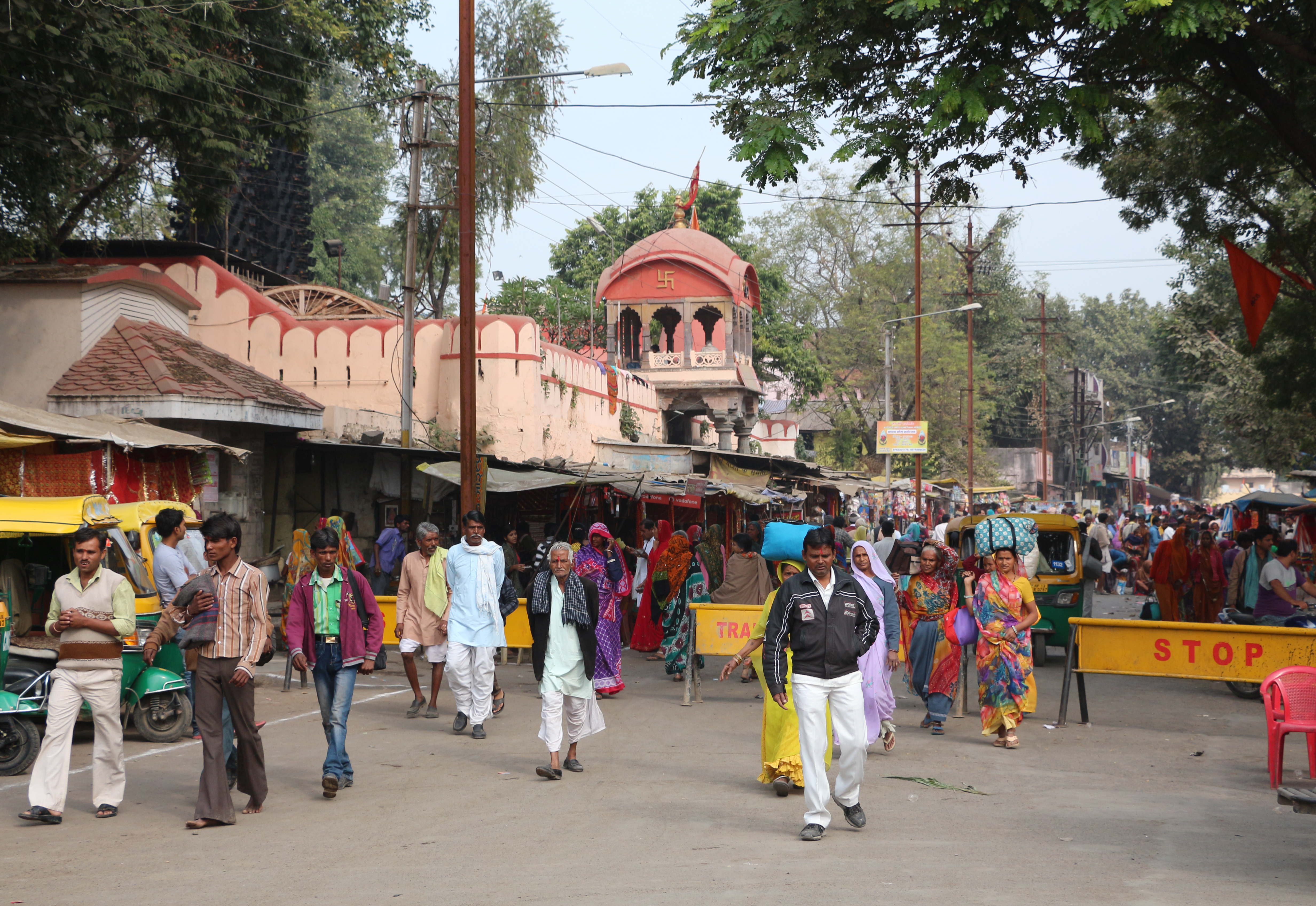 Harsiddhi Marg, Ujjain, India